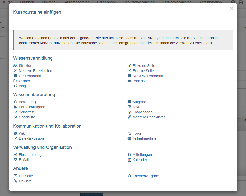 Screenshot of the Openolat course elements